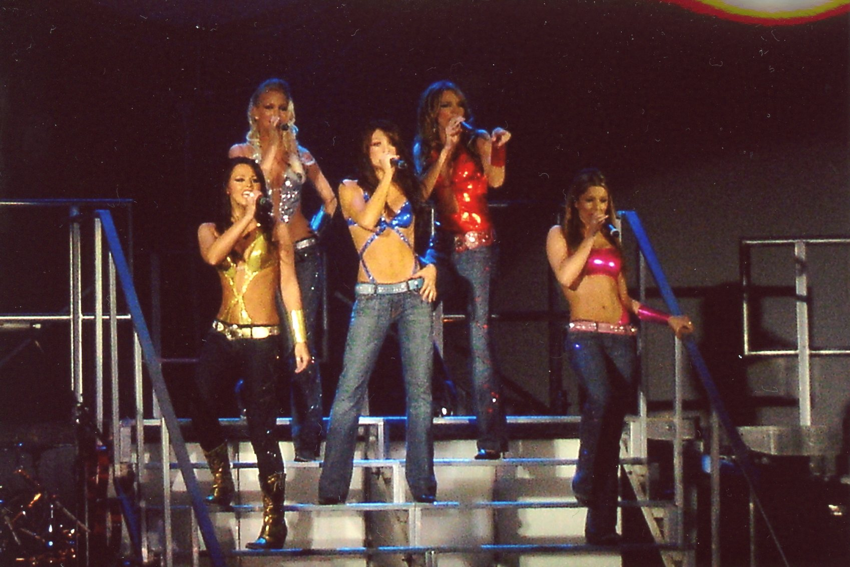 Girls Aloud - Hammersmith Apollo 290505 (1)